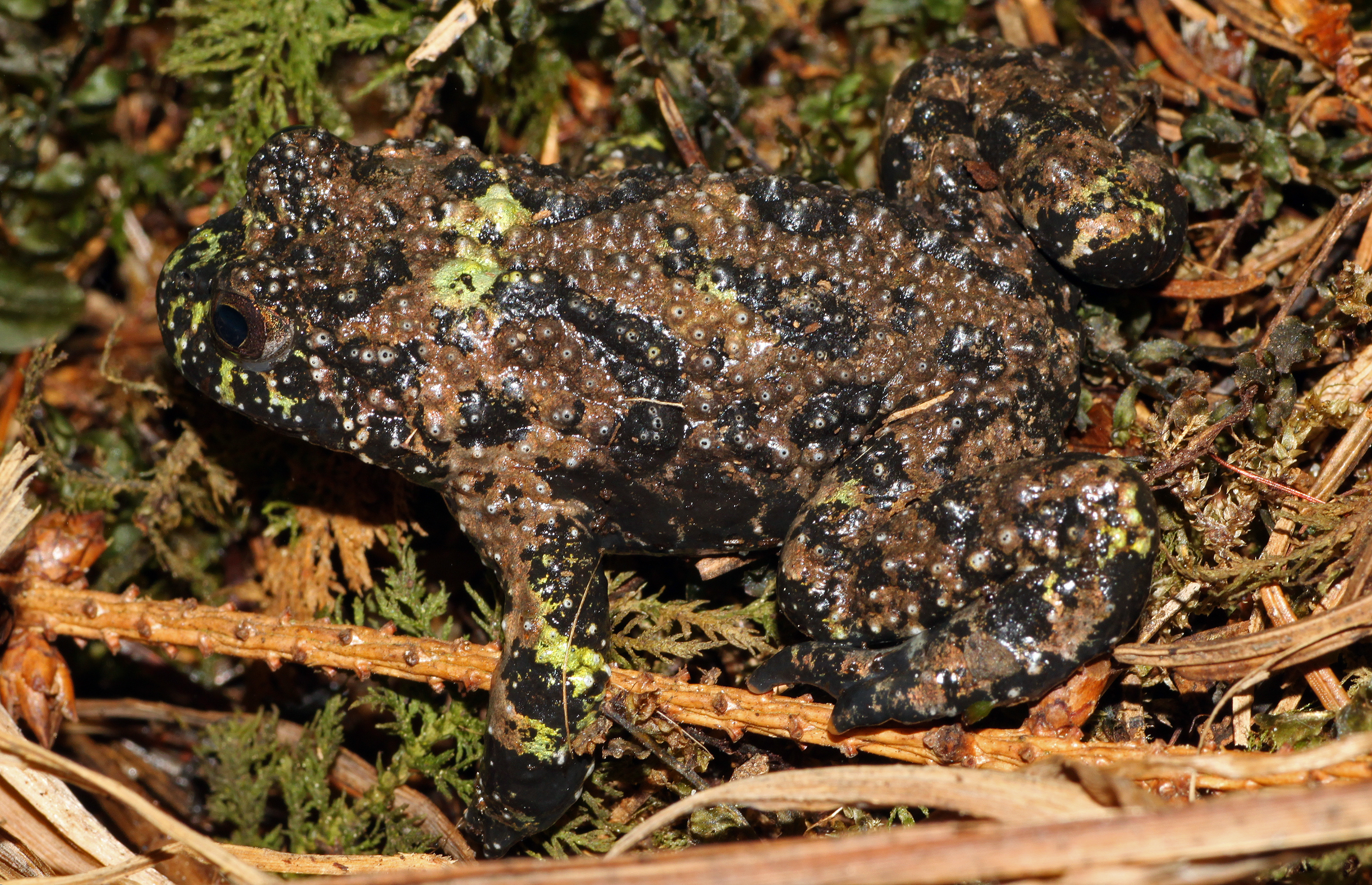 Yellow-Bellied Toad, Bombina variegata, Family: Bombinatoridae, Location: Germany, Ulm, Zoological Garden